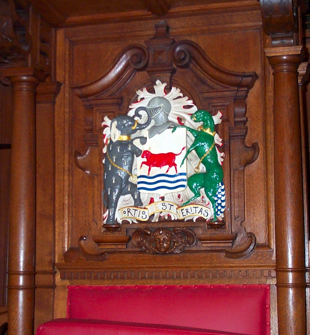 the coat-of-arms of the City of Oxford, seen in the (City) Council chambers in the Town Hall, 2005-03-03, Copyright Kaihsu Tai